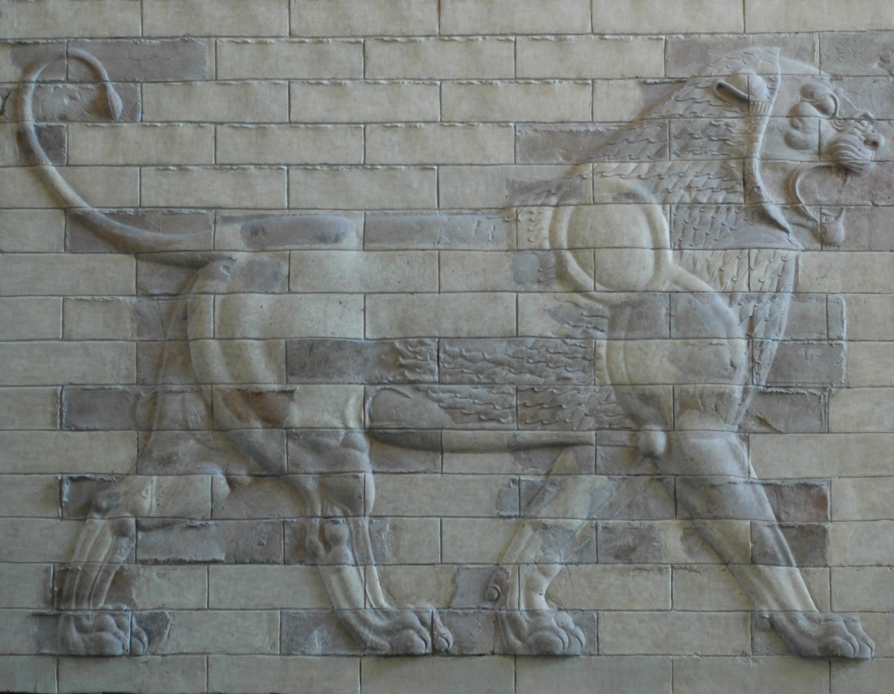 Lion on a decorative panel made of molded bricks, Darius's palace at Susa. Terracotta, ca. 510 BC.